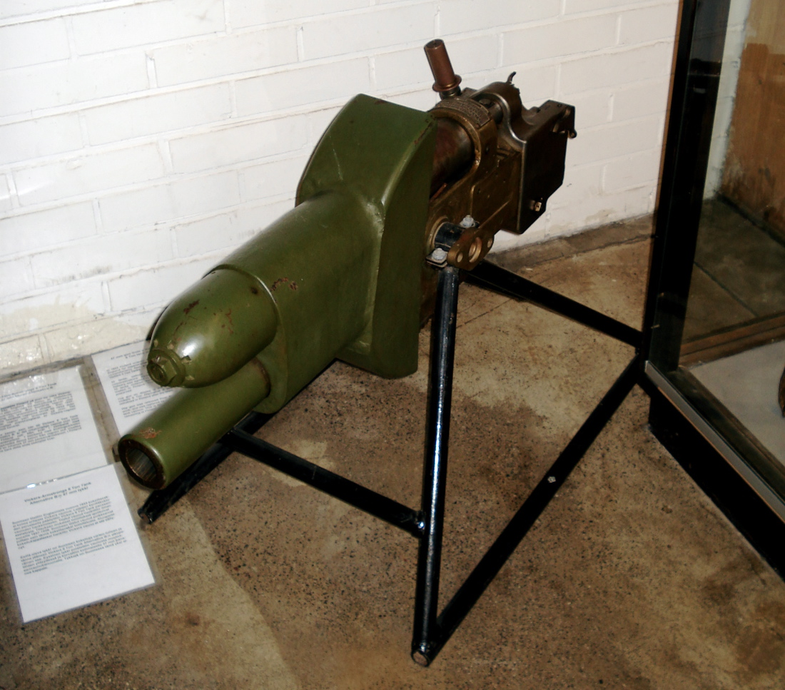 47 mm gun for Vickers tank. A single example of this gun was delivered to Finland on a 6-ton Vickers tank for testing purposes. Finland chose to use 37mm Bofors guns, so this gun was removed. Displayed in Finnish Tank Museum (Panssarimuseo) in Parola. Photo taken on July 14, 2006. Source: Photo by me, User:Balcer.